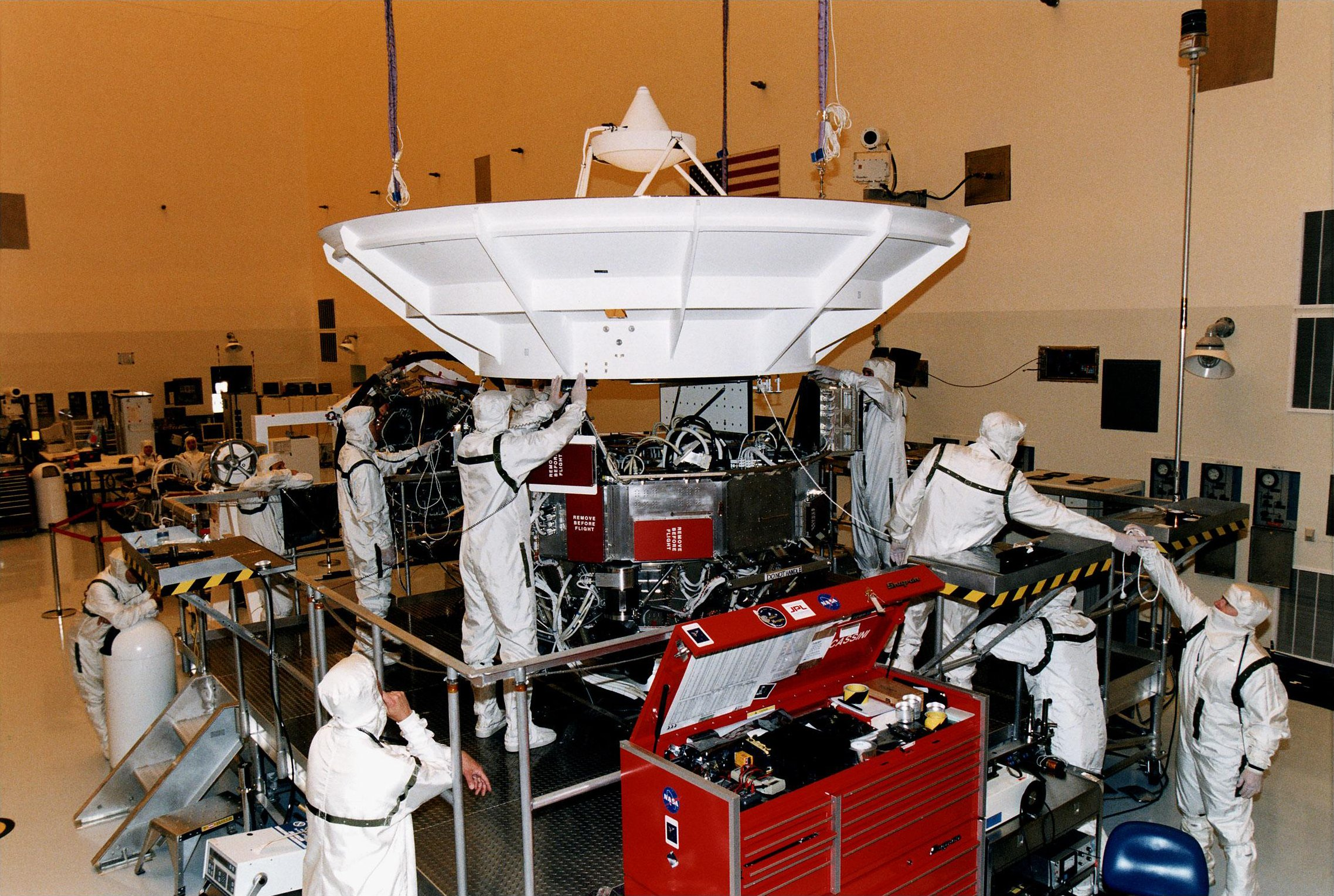 The joint U.S./European spacecraft Cassini before launch, showing the high gain Cassegrain antenna (white) used to communicate with Earth.